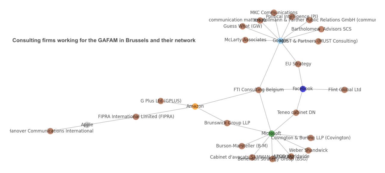 Diagram representing the GAFAM (Google, Amazon, Facebook, Apple, Microsoft) and their network of lobby and consultants.